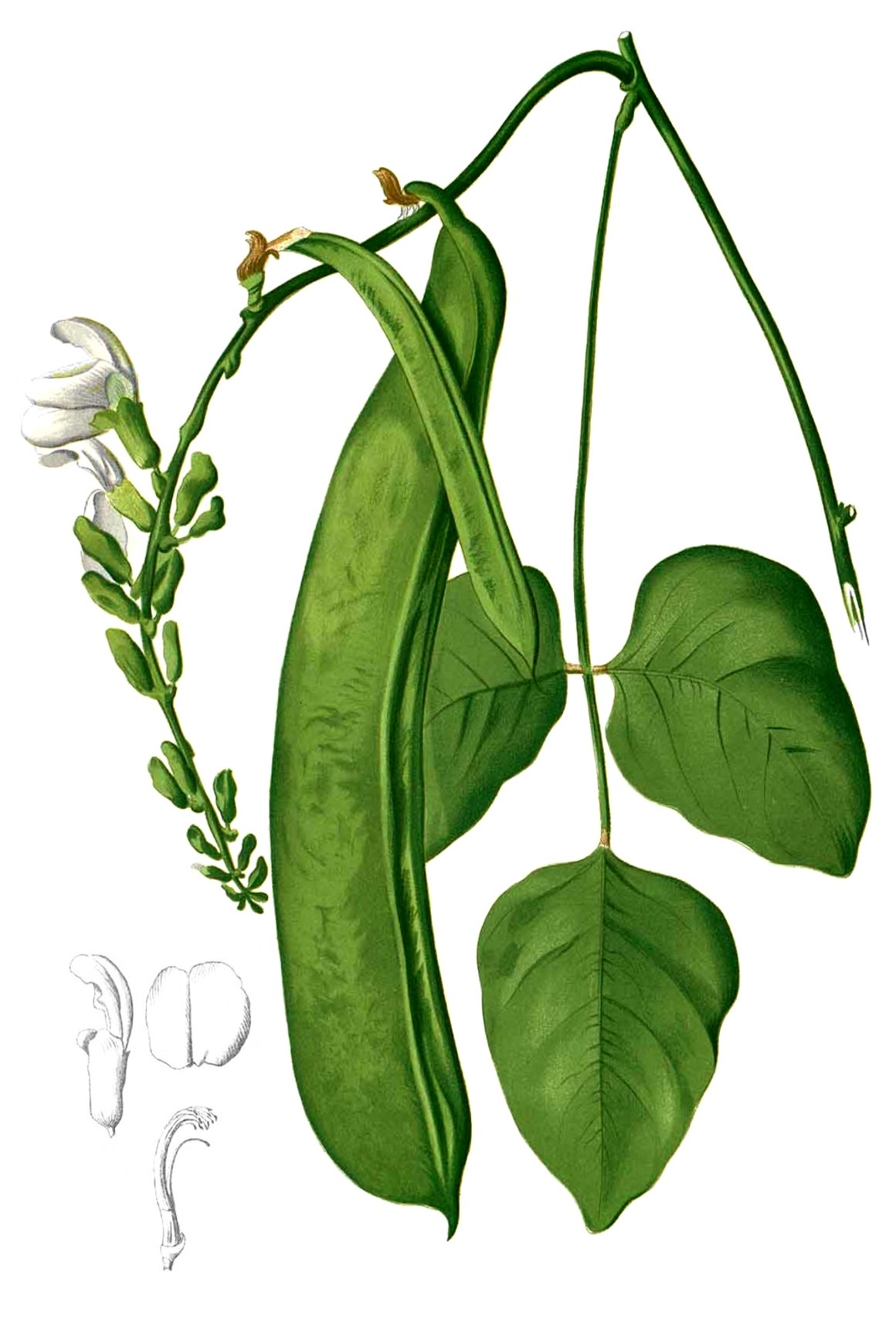 Plate from book